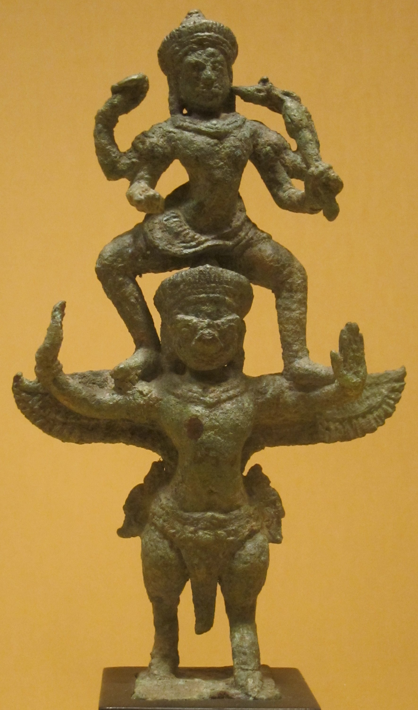 Vishnu on Garuda from Cambodia, Angkor Wat style, 12th century, bronze, Honolulu Academy of Arts